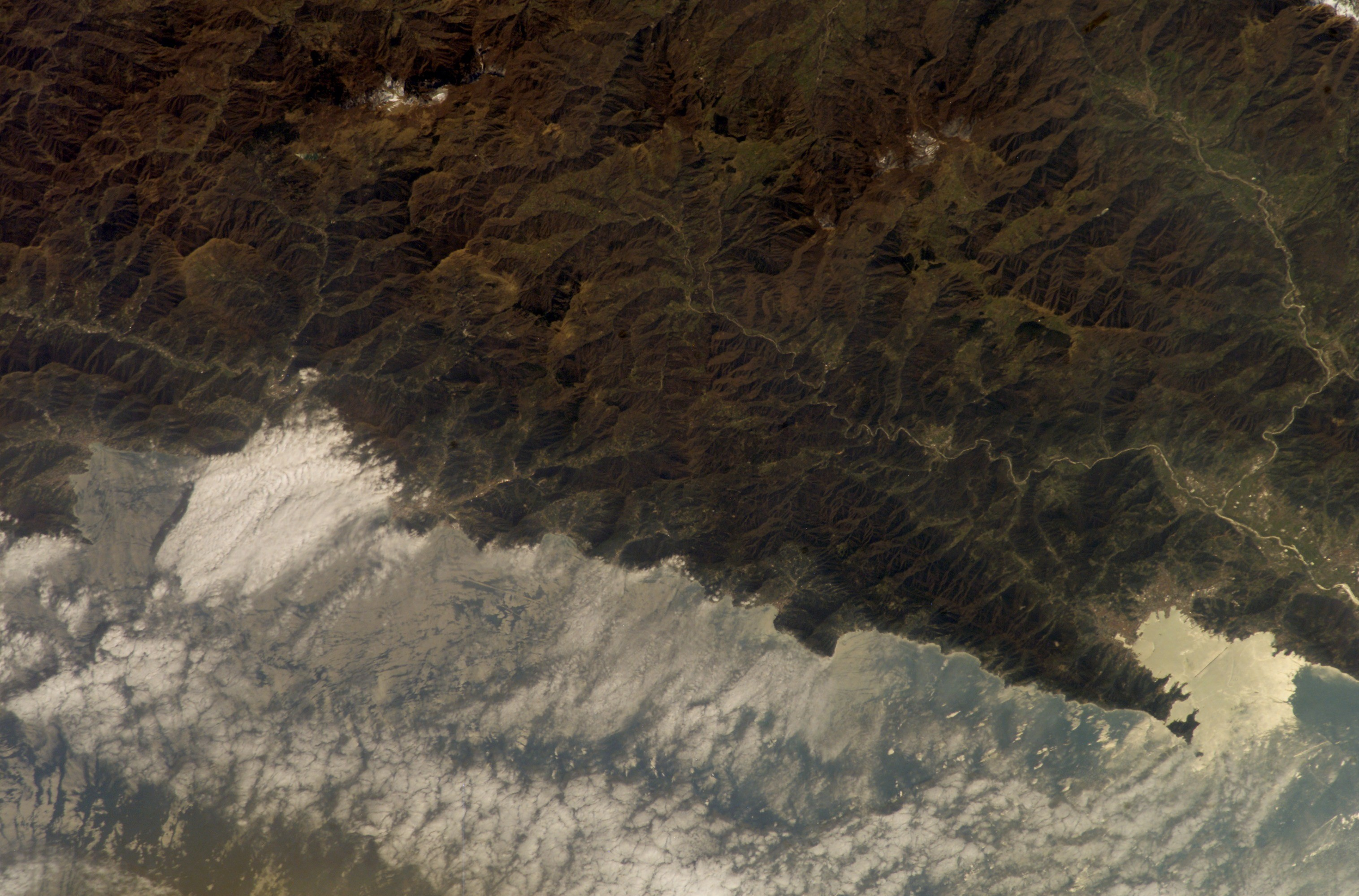 Cinque Terre, La Spezia, Italy, from NASA ISS mission Pictures Mission: ISS014 Roll: E Frame: 17254 Mission ID on the Film or image: ISS014 Country or Geographic Name: ITALY Center Point Latitude: 44.5 Center Point Longitude: 9.5